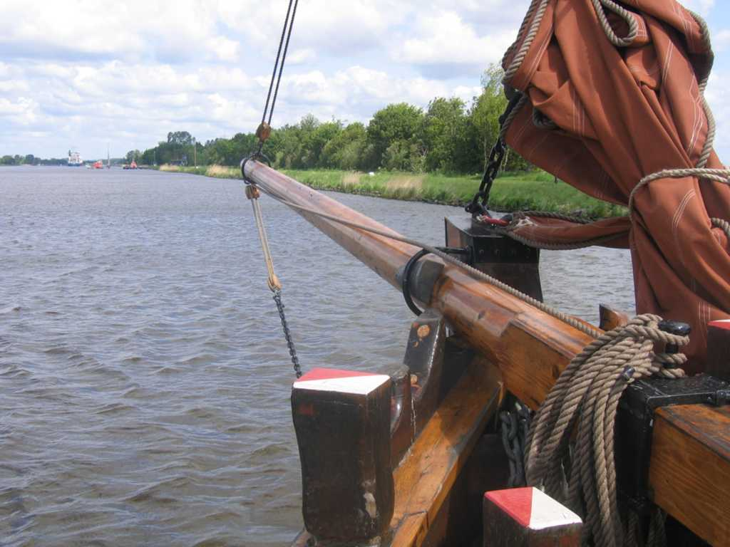 part of sailingship